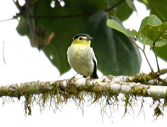 Barred Becard (Pachyramphus versicolor). A male at Old Nono-Mindo Rd, NW Ecuador.